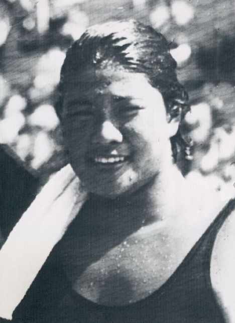 1952 Helsinki Olympic Swimmers Evelyn Kawamoto Press Photo